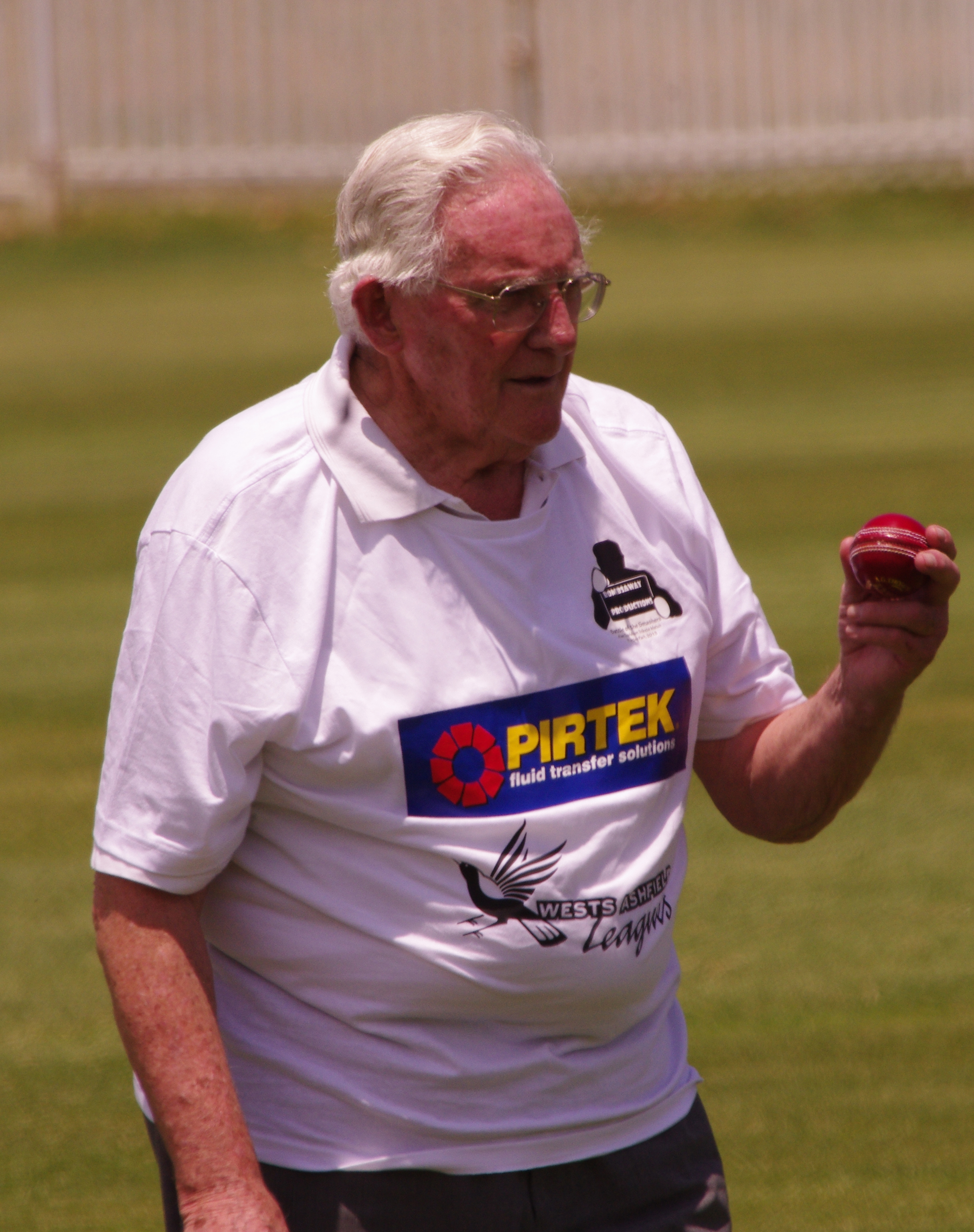 Alan Davidson, ex-Australian Test cricketer